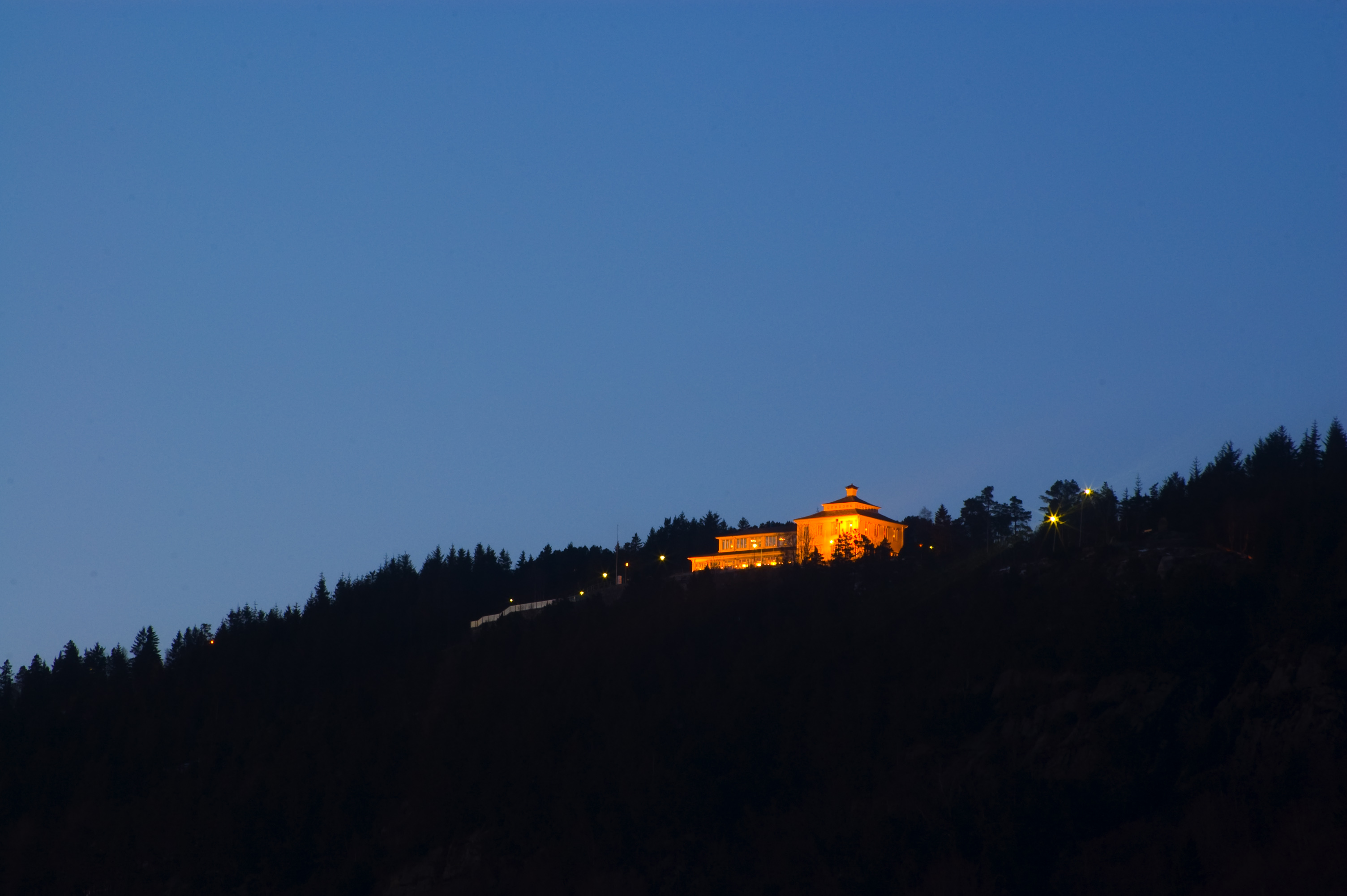 Fløyrestauranten, a restaurant atop Fløyen, a mountain in Bergen, Norway, at night.